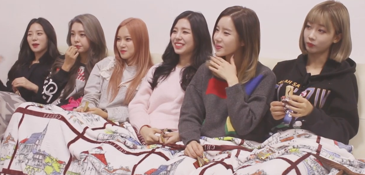 Berry Good "Don't Believe" music video commentary